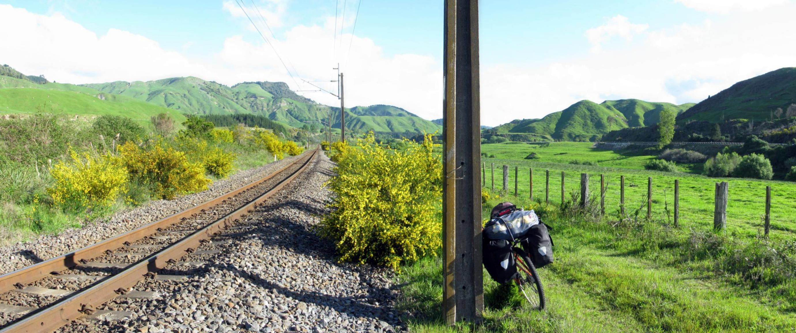 Cycling and skateboarding 25,000km solo around the world - check out the fully featured website at 14degrees Off The Beaten Track